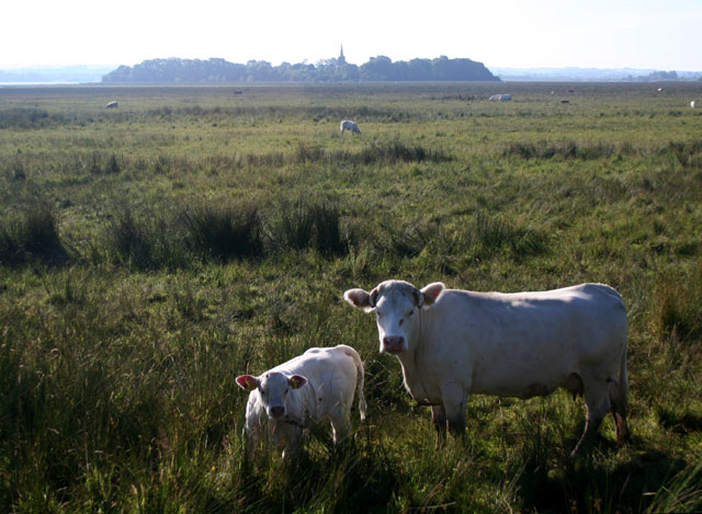 Cattle Grazing in the Lough Beg National Nature Reserve In the background is Church Island in Lough Beg.